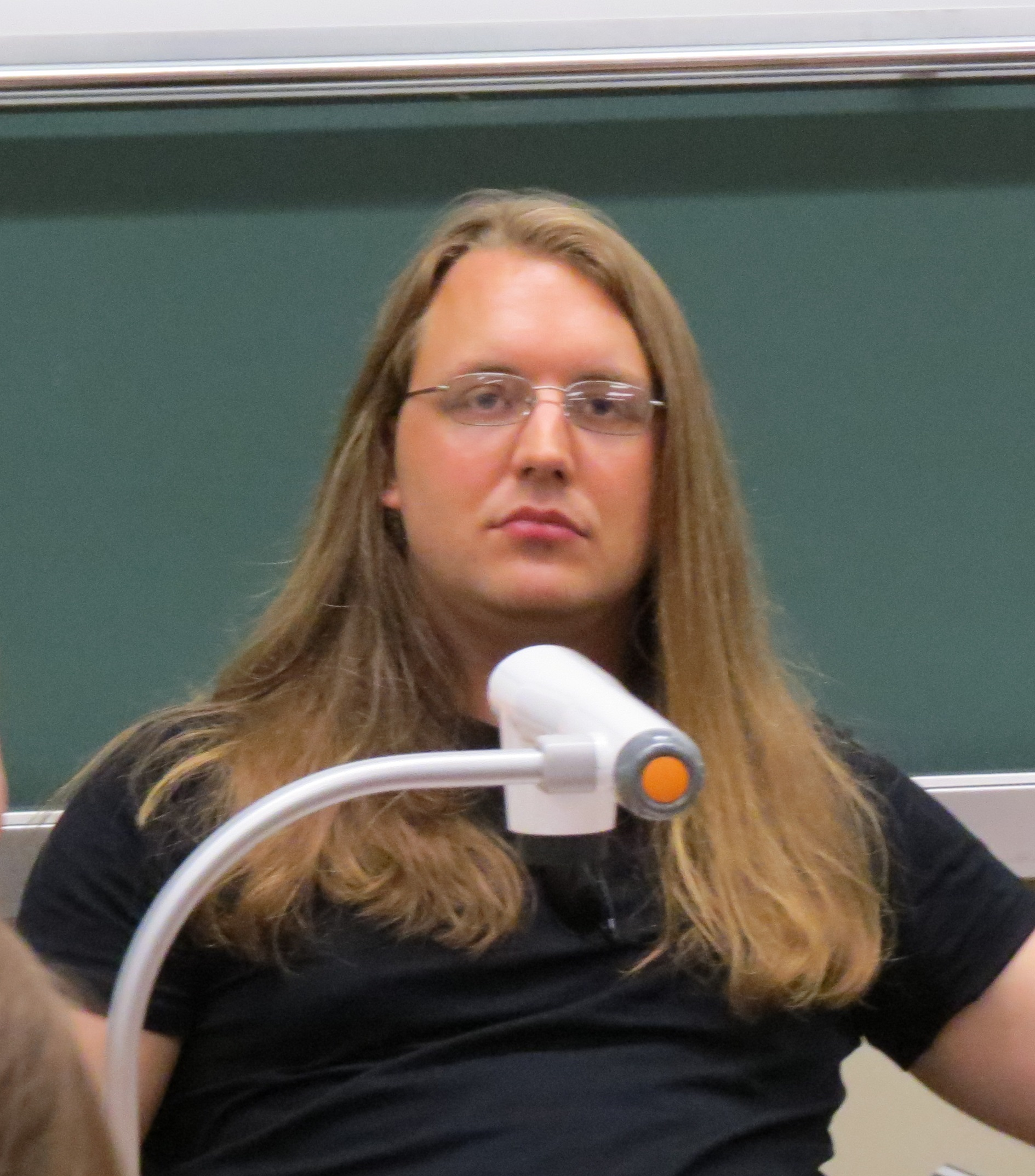 Scott Lynch at Finncon 2014 in Jyväskylä, Finland.